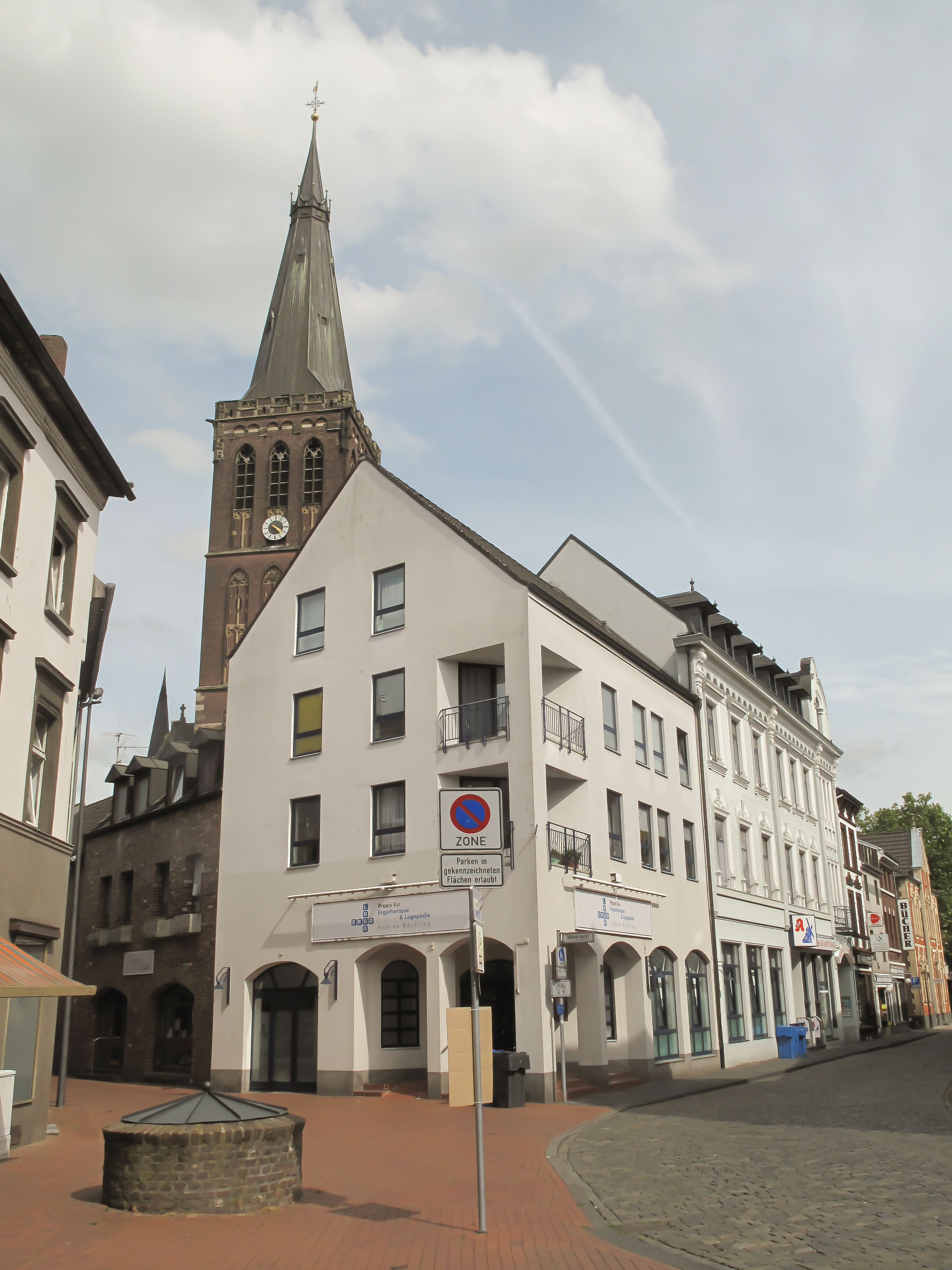 Dülken, churchtower (parish church Sankt Cornelius) in the street